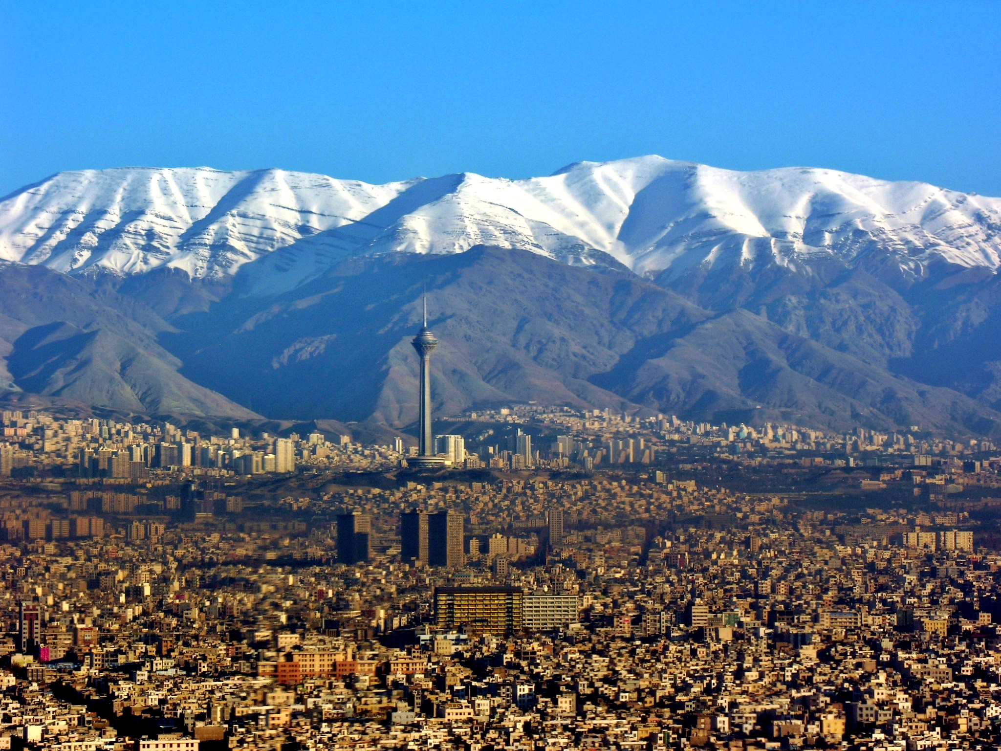 Aerial View of Tehran